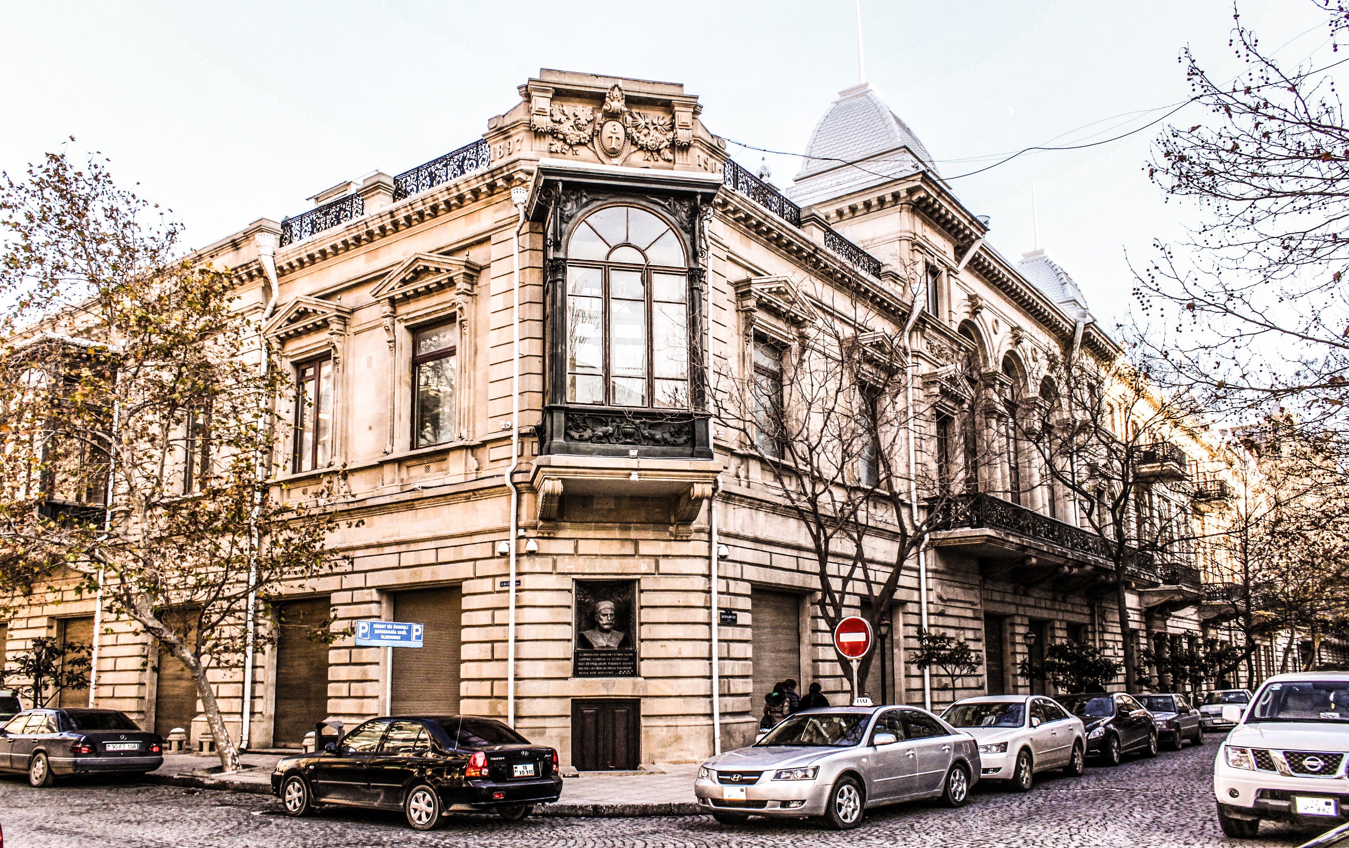 Palace of Haji Zeynalabdin Tagiev